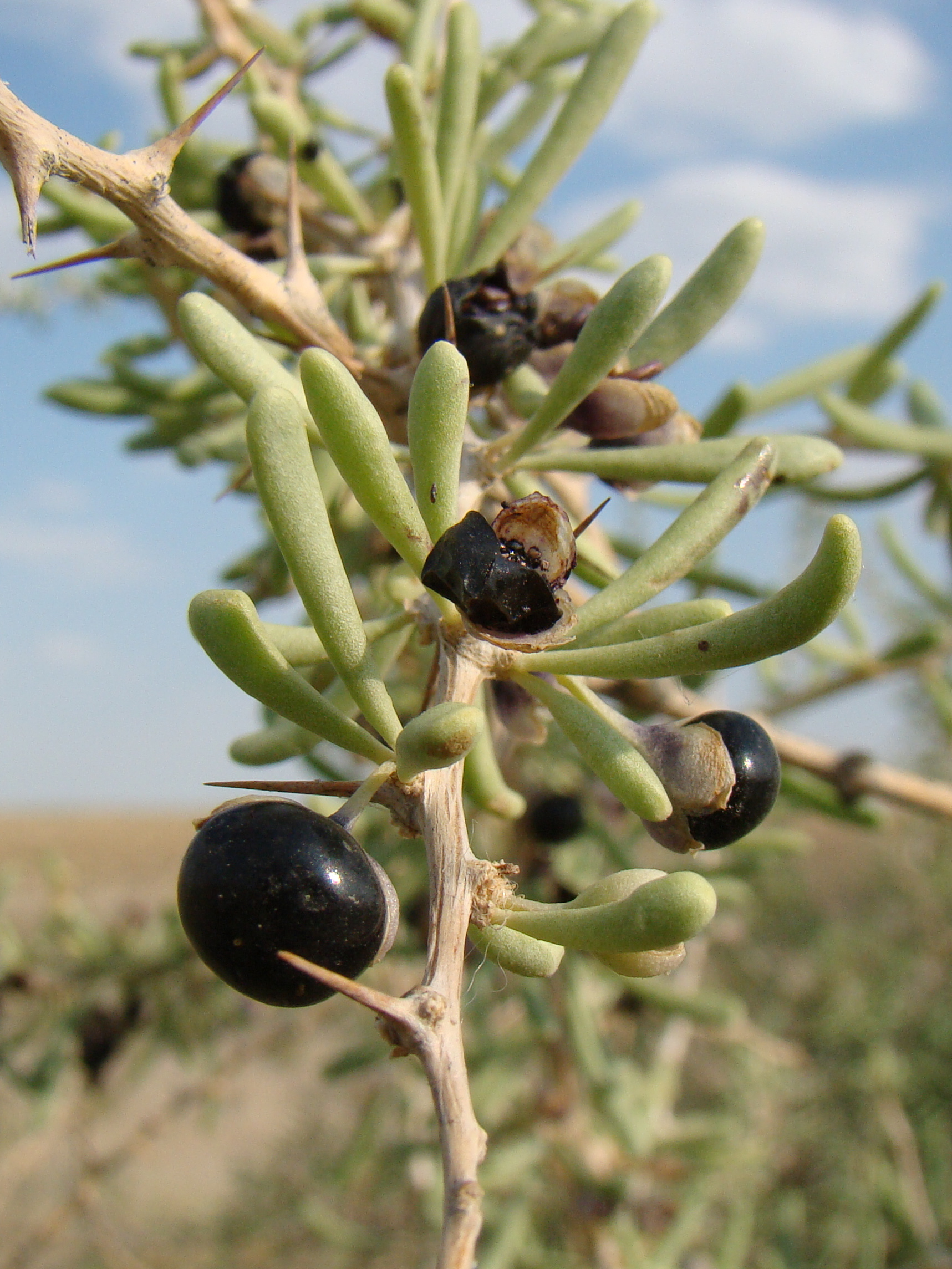 Lycium ruthenicum. Near Baikonur, Kazakhstan.